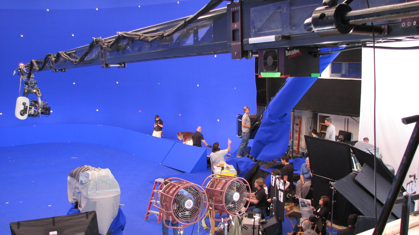 A set for The Spiderwick Chronicles (2008)